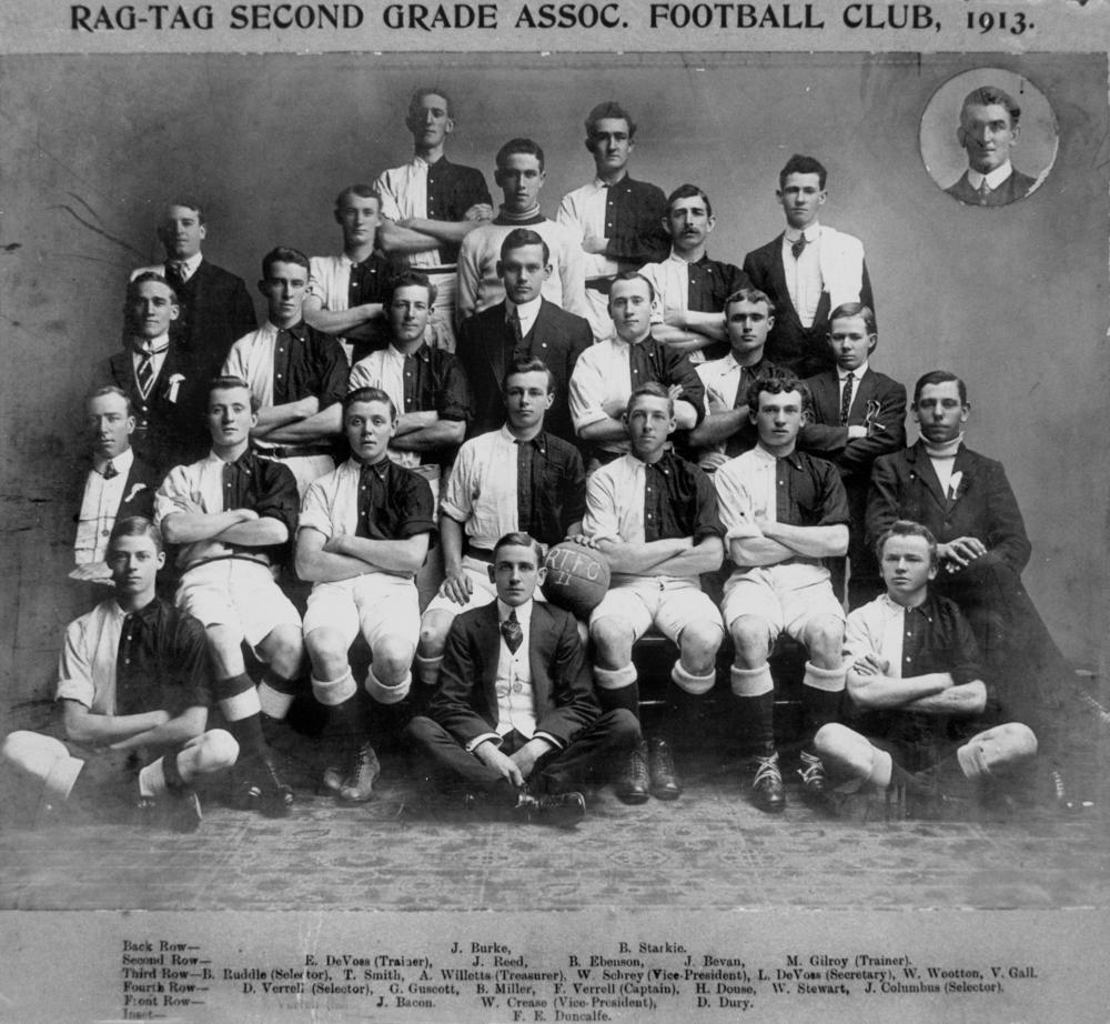 Rag-tag Second Grade Association Football Club, Brisbane, 1913. Back row - J. Burke, B. Starkie. Second row - E. DeVoss (Trainer), J. Reed, B. Ebenson, J. Bevan, M. Gilroy (Trainer). Third row - B. Ruddle (Selector), T. Smith, A. Willetts (Treasurer), W. Schrey (Vice-president), L. DeVoss (Secretary), W. Wootton, V. Gall. Fourth row - D. Verrell (Selector), G. Guscott, B. Miller, F. Verrell (Captain), H. Douse, W. Stewart, J. Columbus (Selector). Front row - J. Bacon, W. Crease (Vice-president), D. Dury. Inset - F. E. Duncalfe. (Description supplied with photograph.).